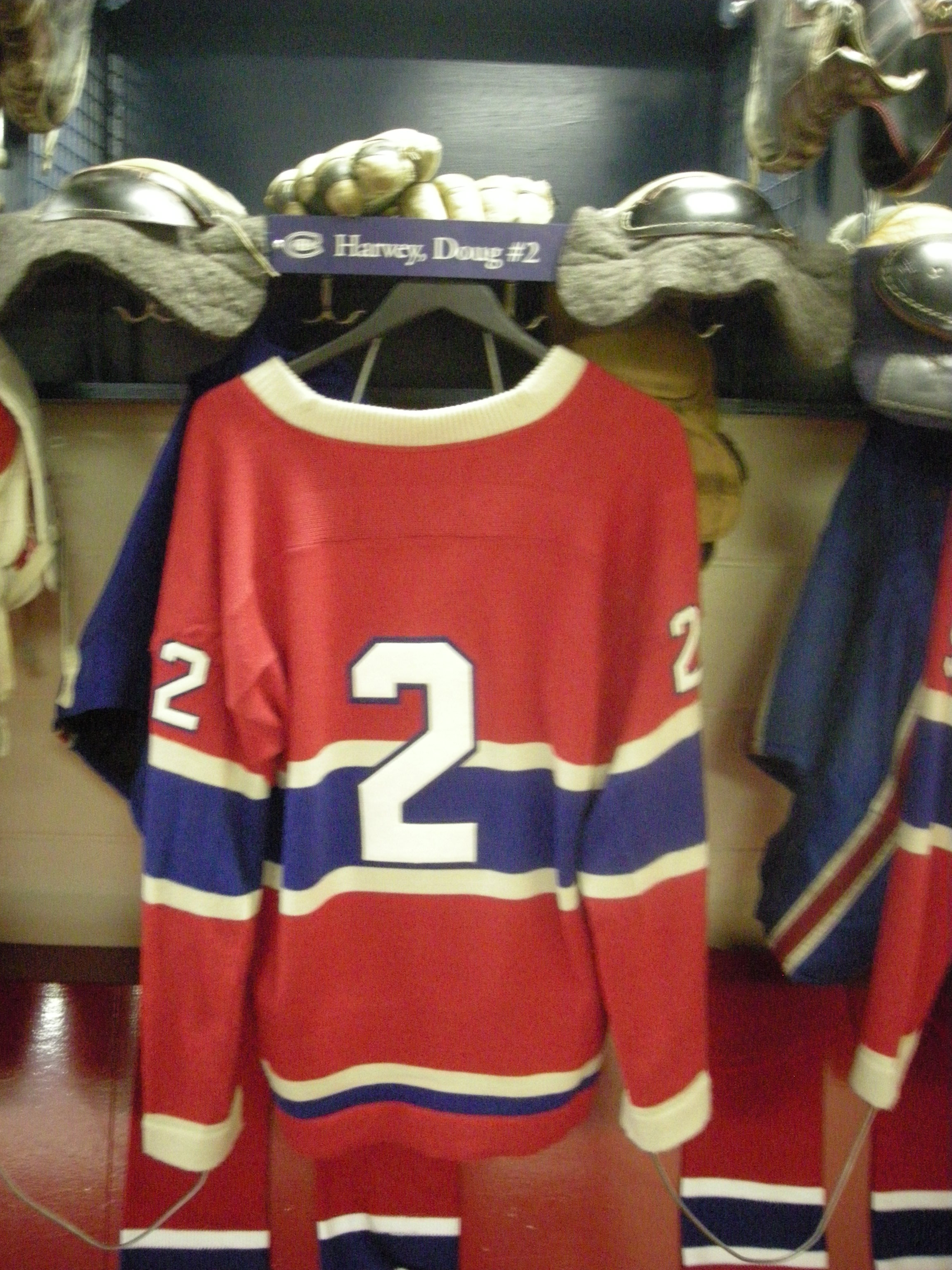 Doug Harvey's jersey in the replica of the Montreal Canadiens dressing room at the Hockey Hall of Fame in Toronto, Ontario (Canada).